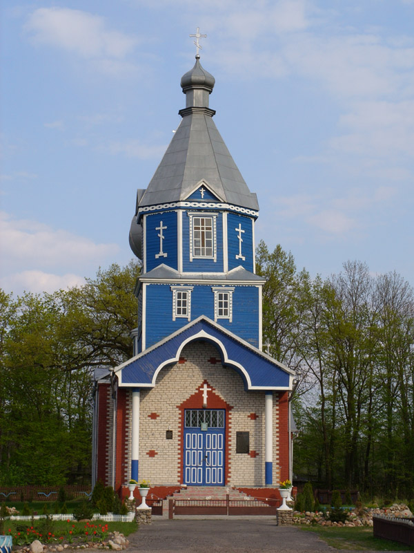 Renewed orthodox church in 90th Беларуская (тарашкевіца): Адноўленная на пачатку 90-х праваслаўная царква